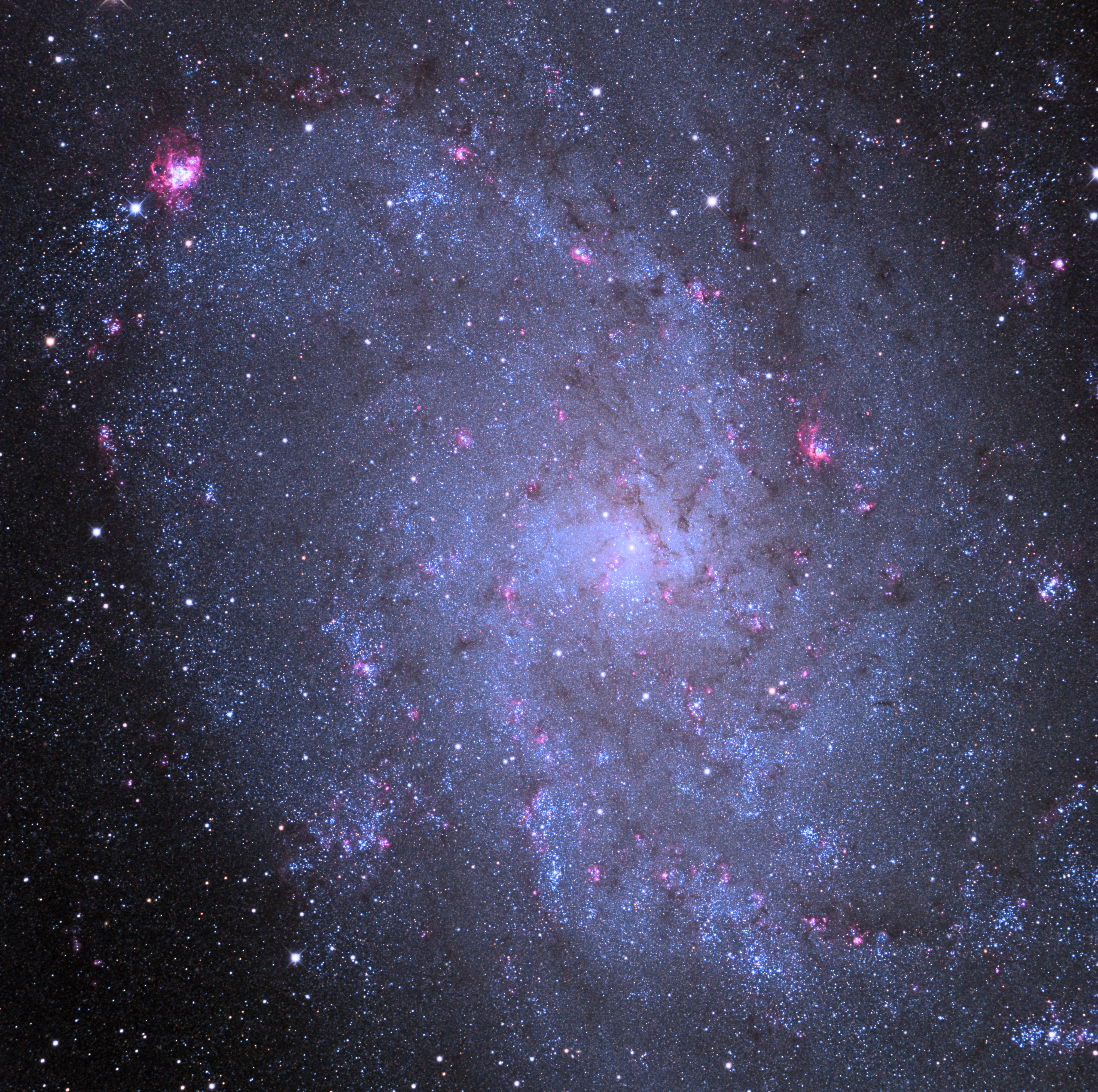 Messier 33 (M33) spiral galaxy